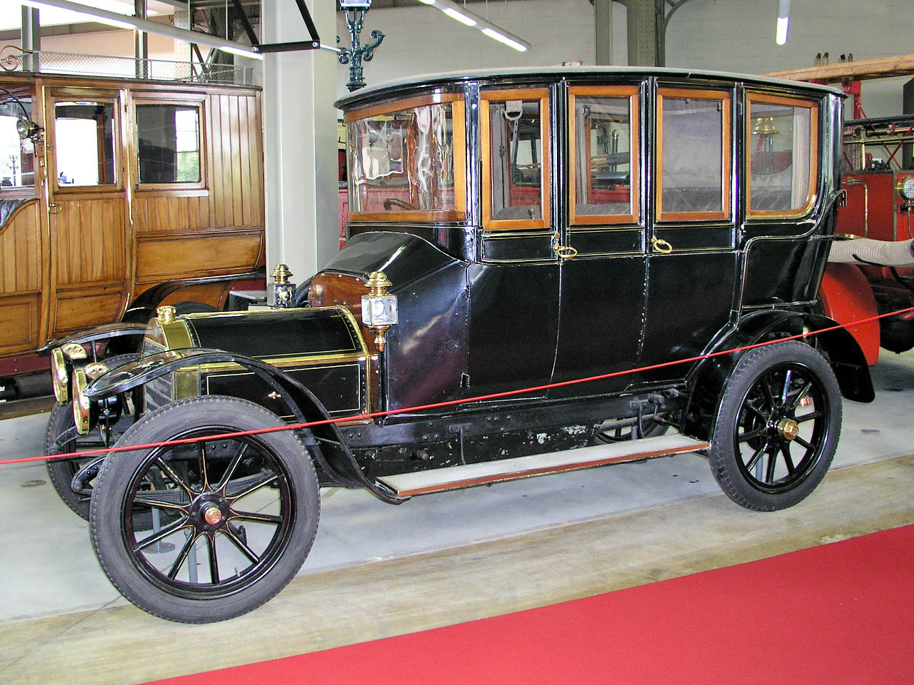 car with 1994 cc 4-cylinder pair cast L-head engine, made in Belgium by Fabrique Nationale d'Armes de Guerre; side view